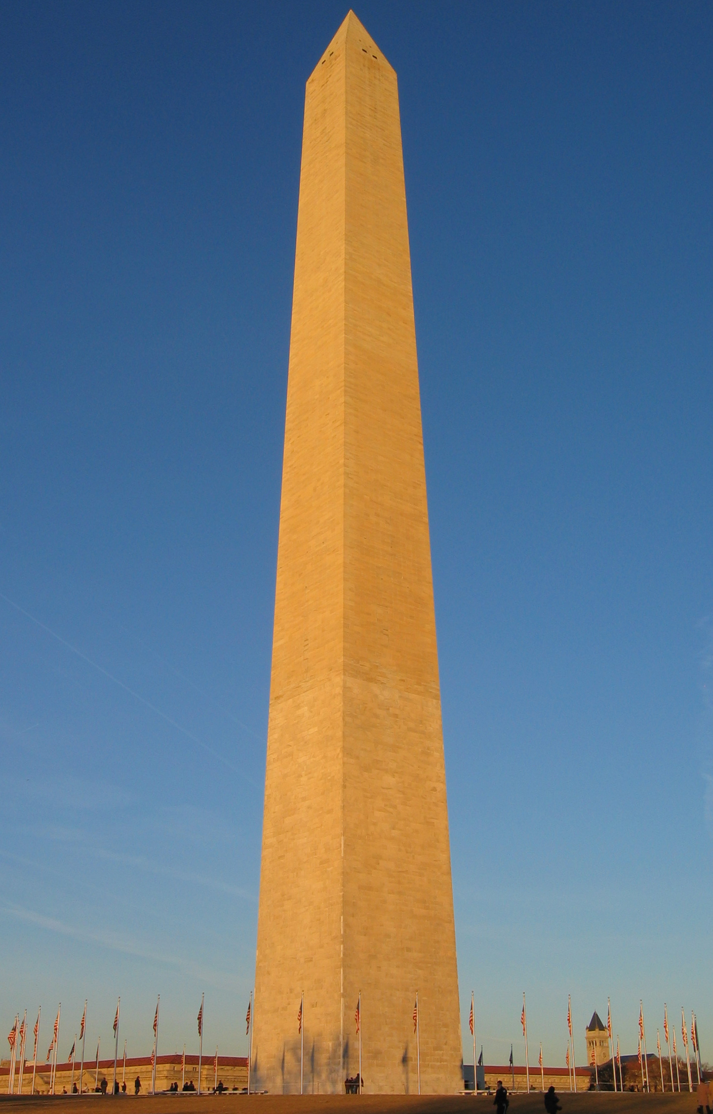 Washington Monument Photo taken by User:Aude on December 23, 2005.